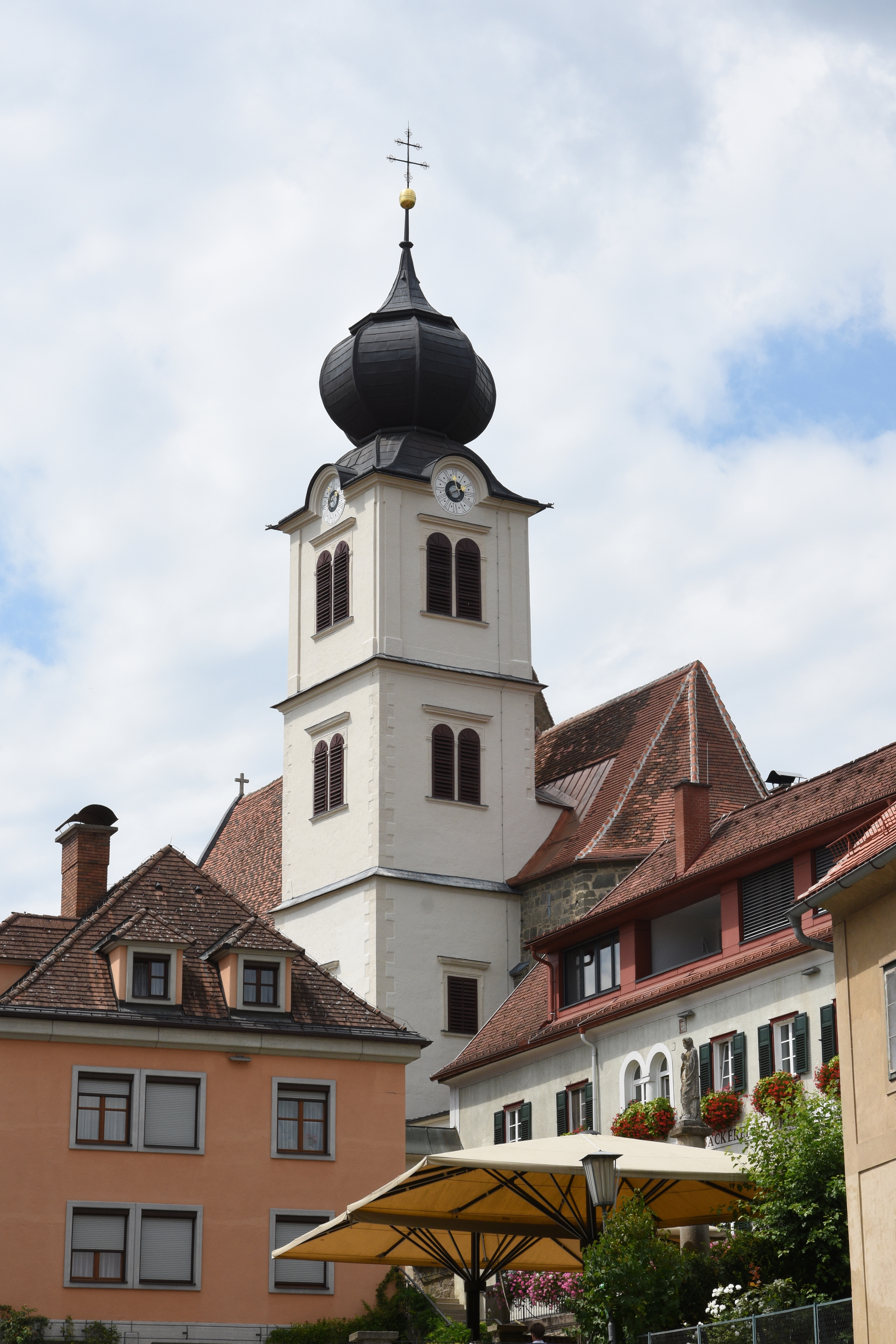 Church Pfarrkirche Riegersburg